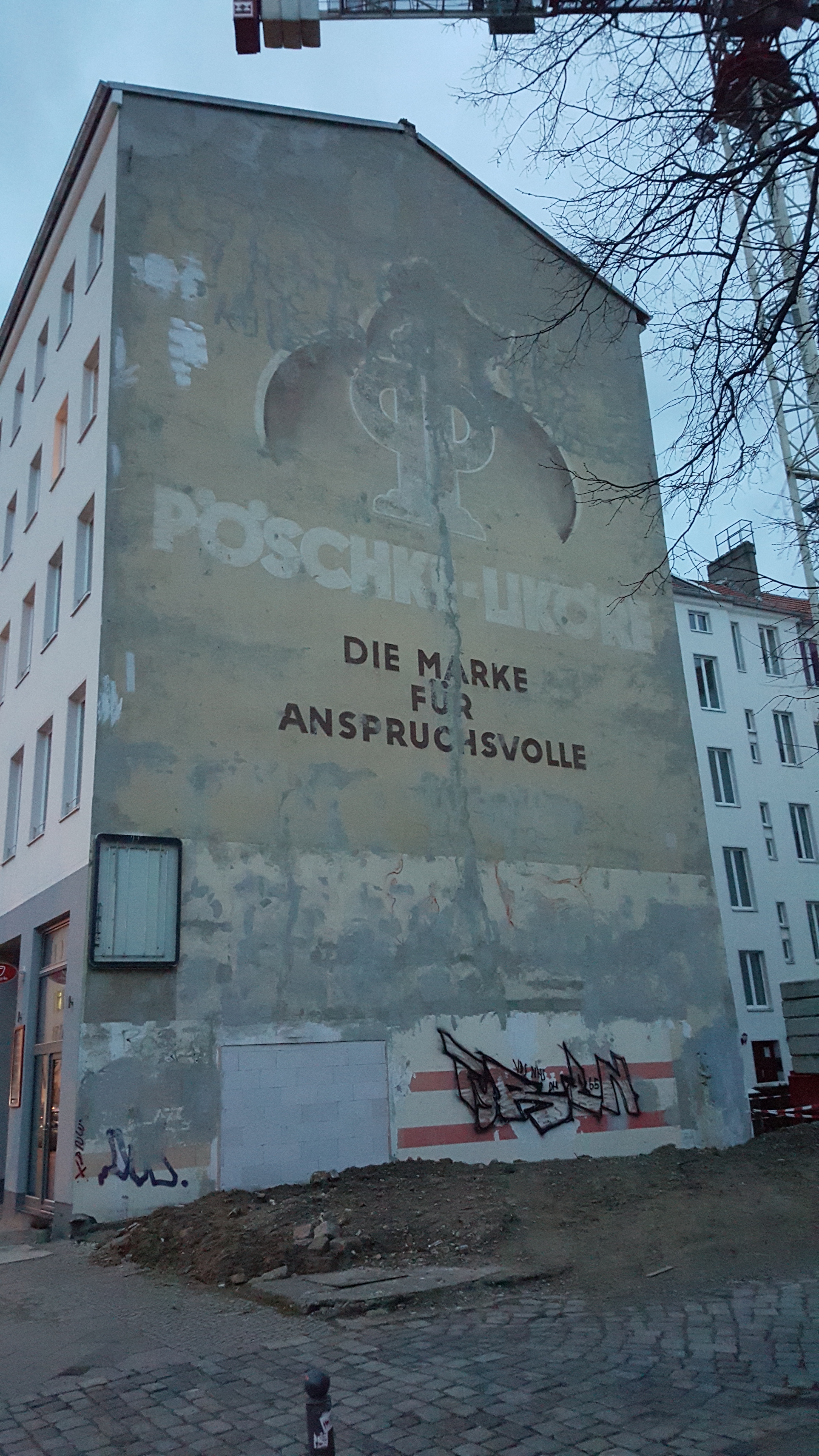 Street ad for Pöschke Likör, producer of "WurzelPeter" digestif.